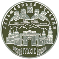 Coin of Ukraine